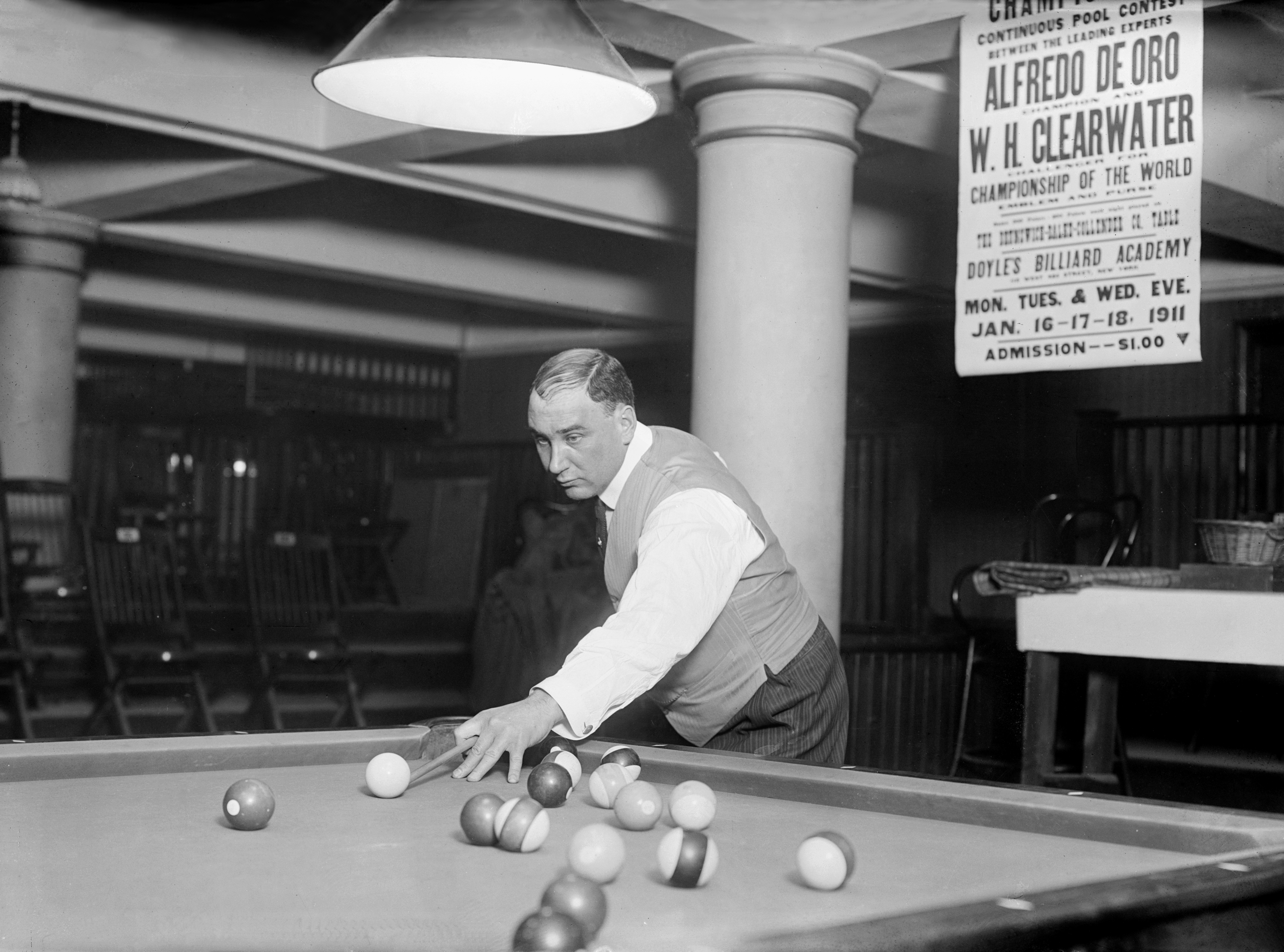 Bain News Service,, publisher. W. H. Clearwater - pool [between ca. 1910 and ca. 1915] 1 negative : glass ; 5 x 7 in. or smaller. Notes: Title from unverified data provided by the Bain News Service on the negatives or caption cards. Forms part of: George Grantham Bain Collection (Library of Congress). Format: Glass negatives. Repository: Library of Congress, Prints and Photographs Division, Washington, D.C. 20540 USA, General information about the Bain Collection is available at Persistent URL: Call Number: LC-B2- 2784-6